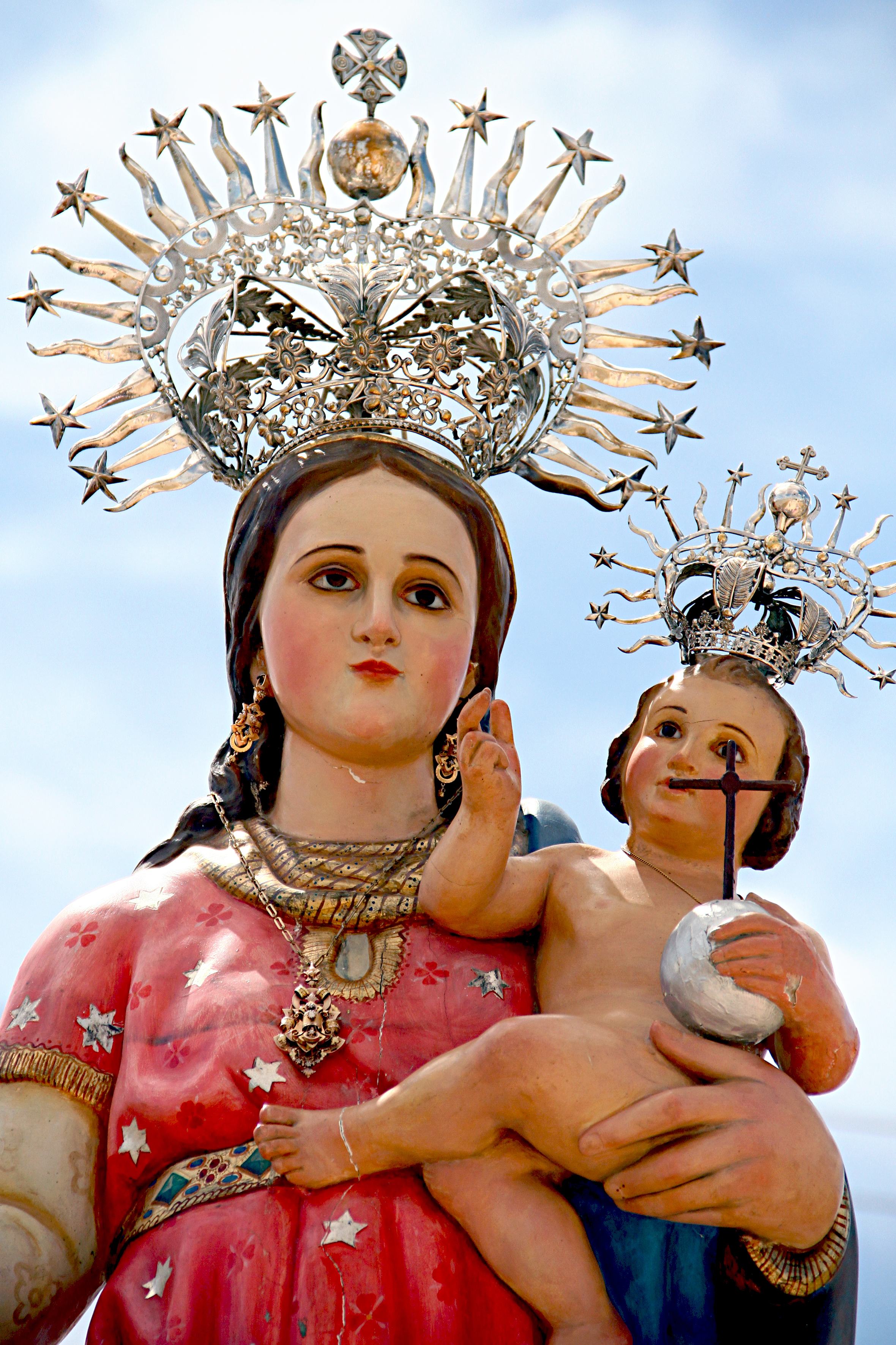 Detalle de Nuestra Señora de la Estrella por Jose Maria Rodriguez Martin, "Chefo"